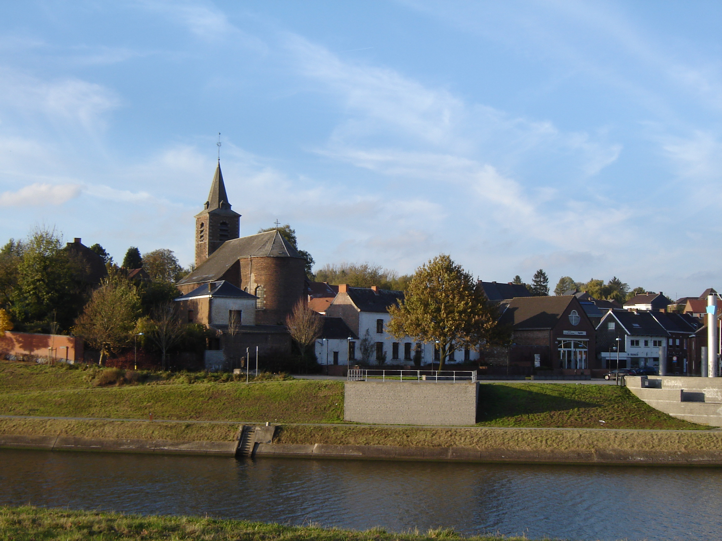 View on the village of Thieu on the Canal du Centre. Thieu, Le Rœulx, Hainaut, Belgium